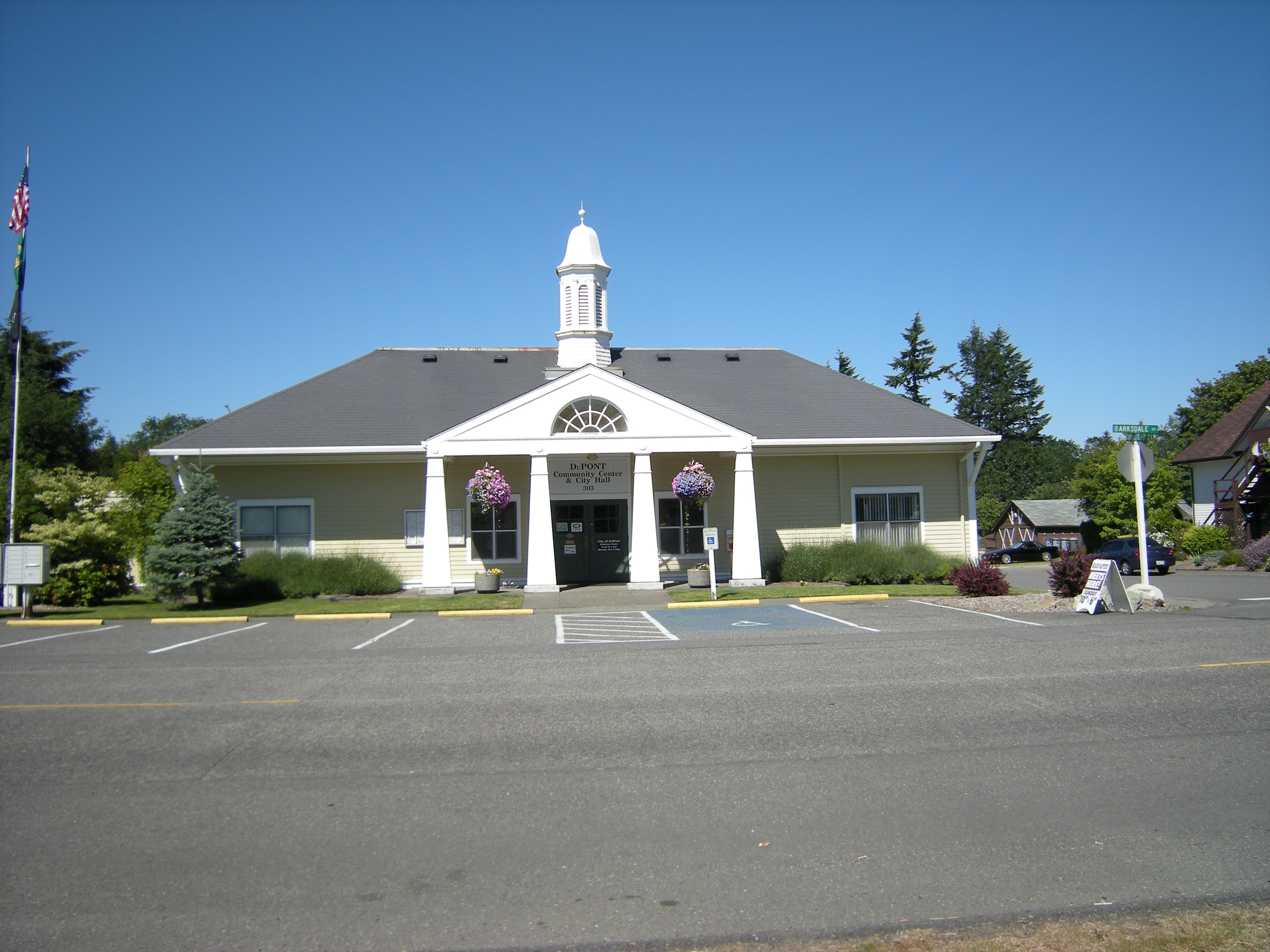 City hall and community center, Barksdale Avenue, Dupont, Washington.